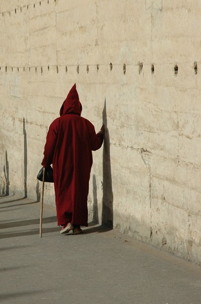 A Djellaba worn in Fes, Morocco on the Kasba Chrarda